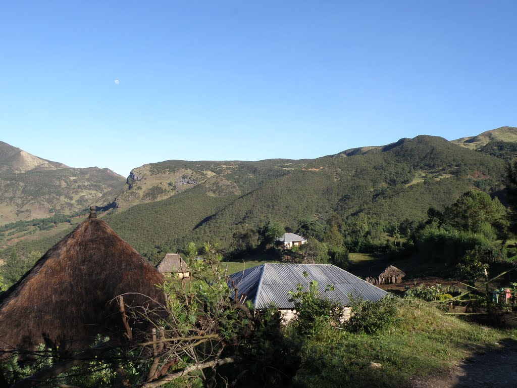 View over montane Eucalyptus urophylla woodland and village upper Hatu Builico valley